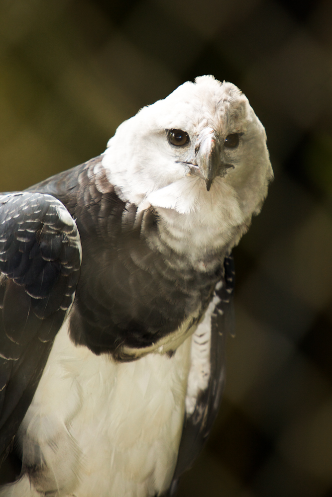 A Harpy Eagle (sometimes known as the American Harpy Eagle) in captivity.